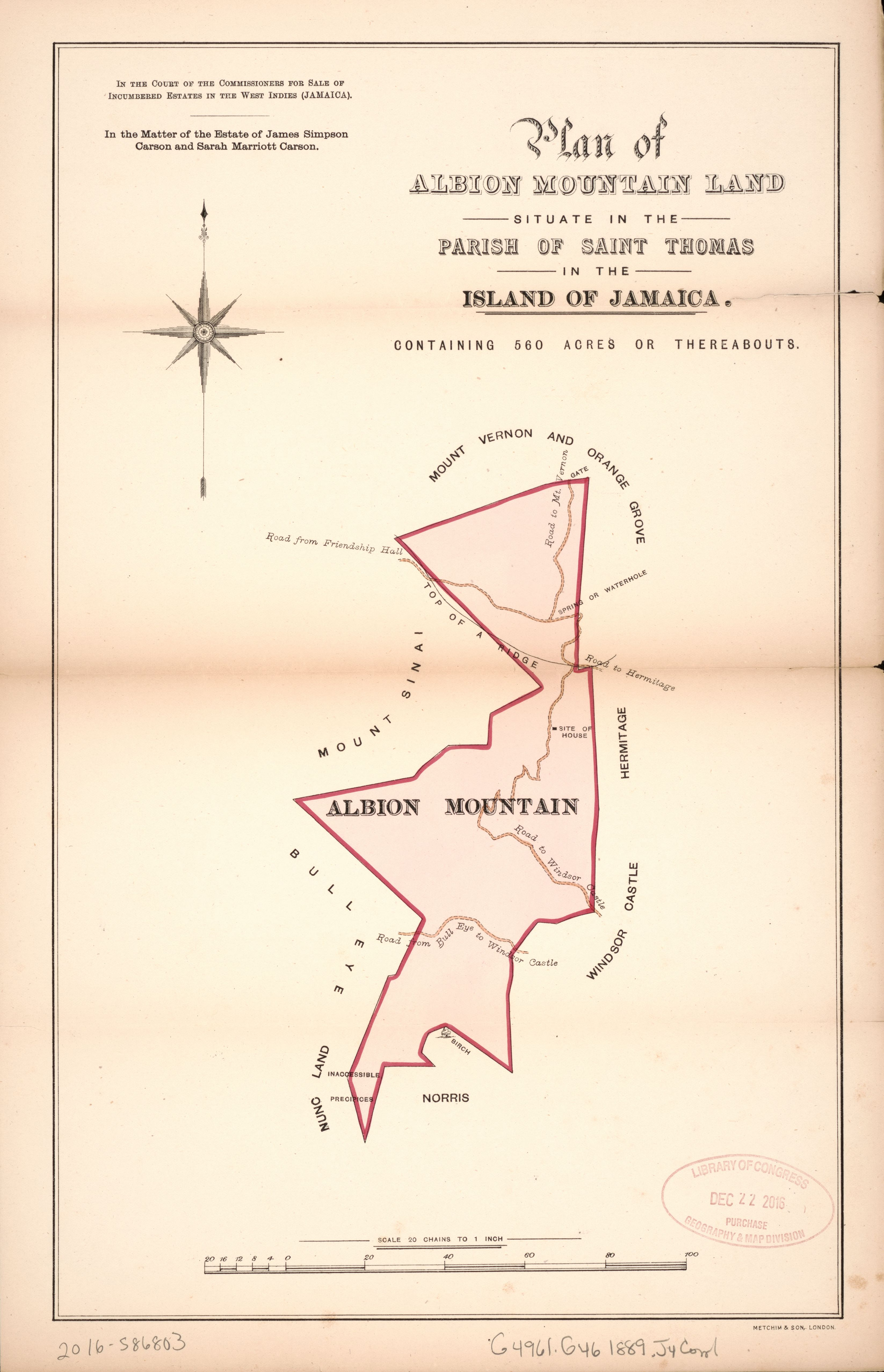 Title from accompanying text. "In the matter of the Estate of James Simpson Carson and Sarah Marriott Carson." "Sale on Wednesday, the 15th day of May, 1889." Accompanied by text: In the Court of the Commissioners for Sale of Incumbered Estates in the West Indies, Jamaica. ([4] unnumbered pages : cadastral data, annotations ; 45 cm, folded to 28 x 12 cm). "At the Auction Mart, Tokenhouse Yard, in the city of London, on Wednesday, the 15th day of May, 1889, at one o'clock precisely. The purchaser will have an indefeasible Parliamentary Title under the Seal of the Court." Copy imperfect: Cover detached, fragile, use-worn, torn along fold lines. Available also through the Library of Congress Web site as a raster image.